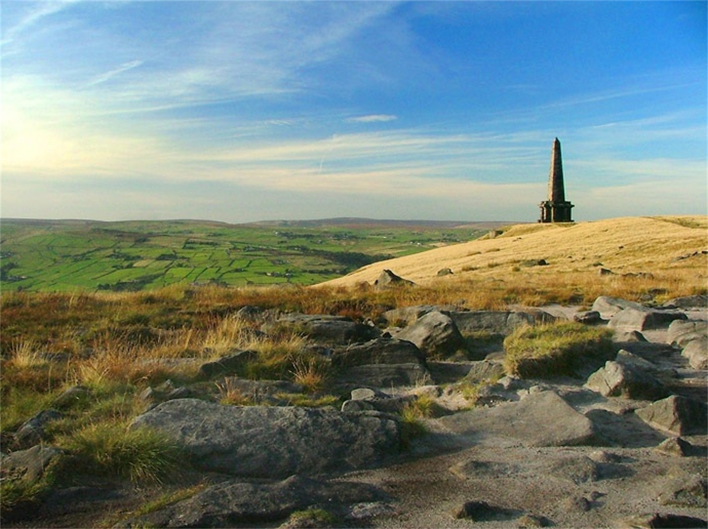 Took photo myself.Loh93 00:49, 26 November 2006 (UTC)